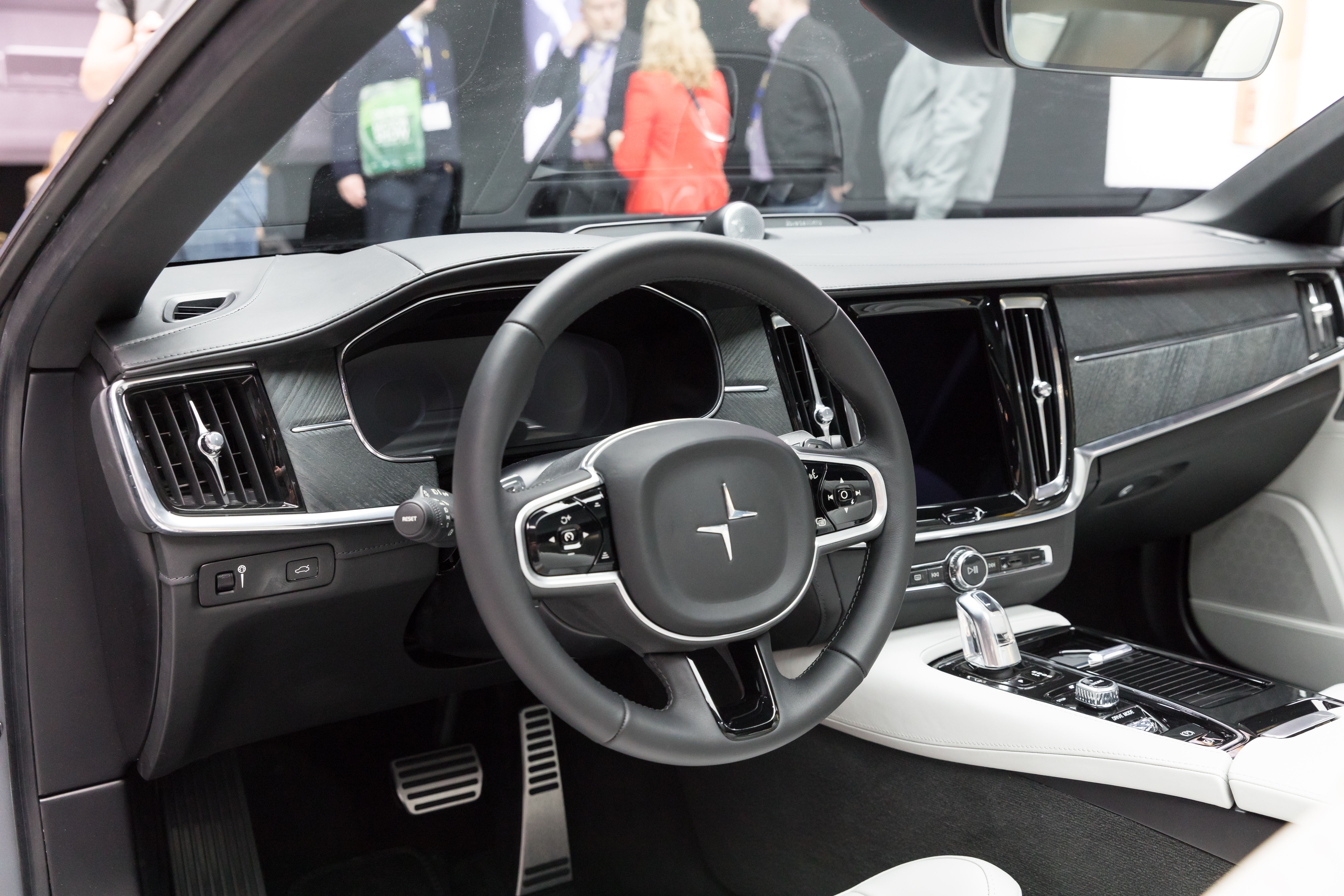 Geneva International Motor Show 2018